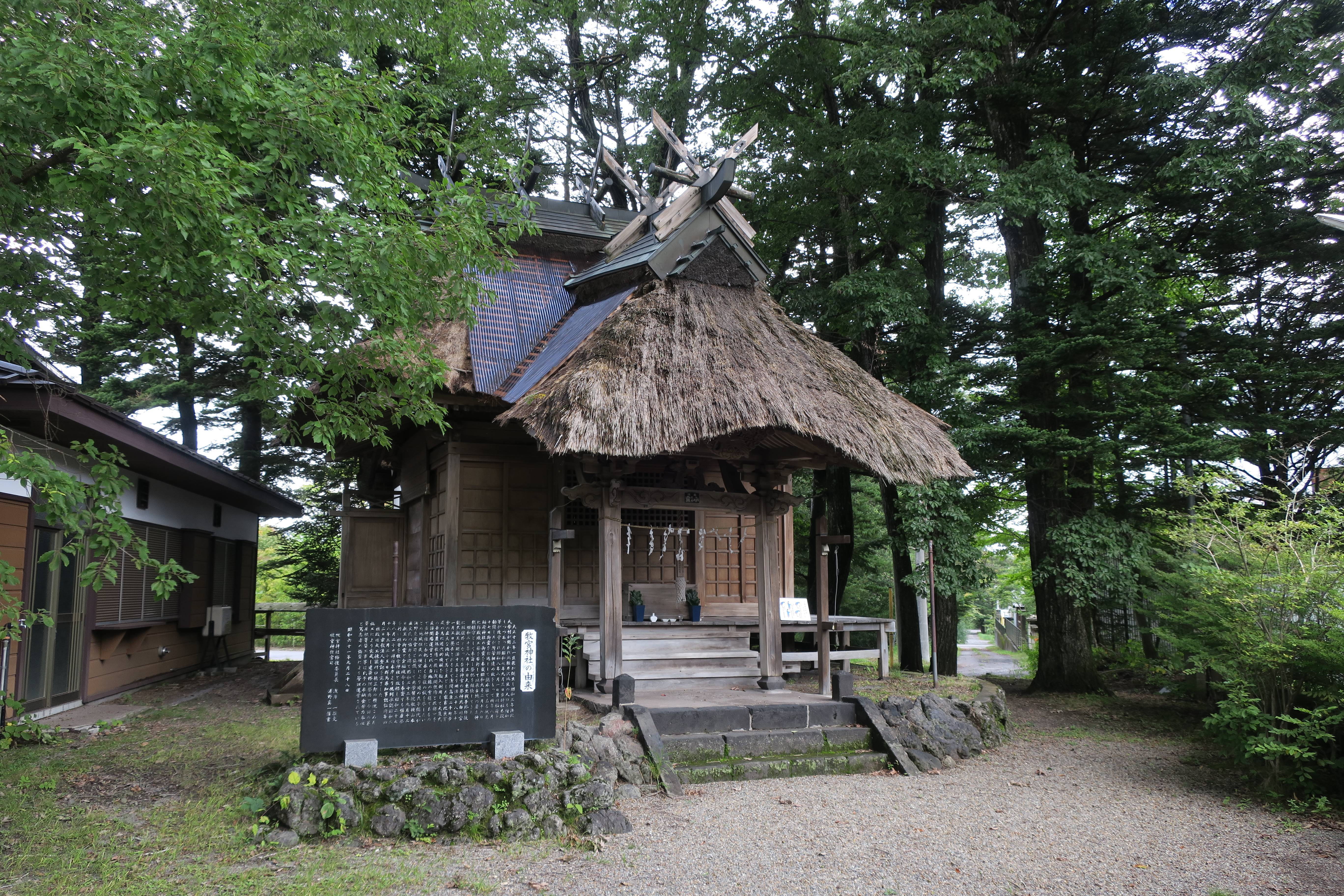 Makinomiya-jinja (Naganohara, Gunma).